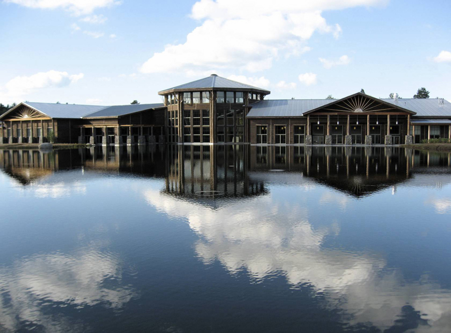 Image of the Wild Center in Tupper Lake, New York.